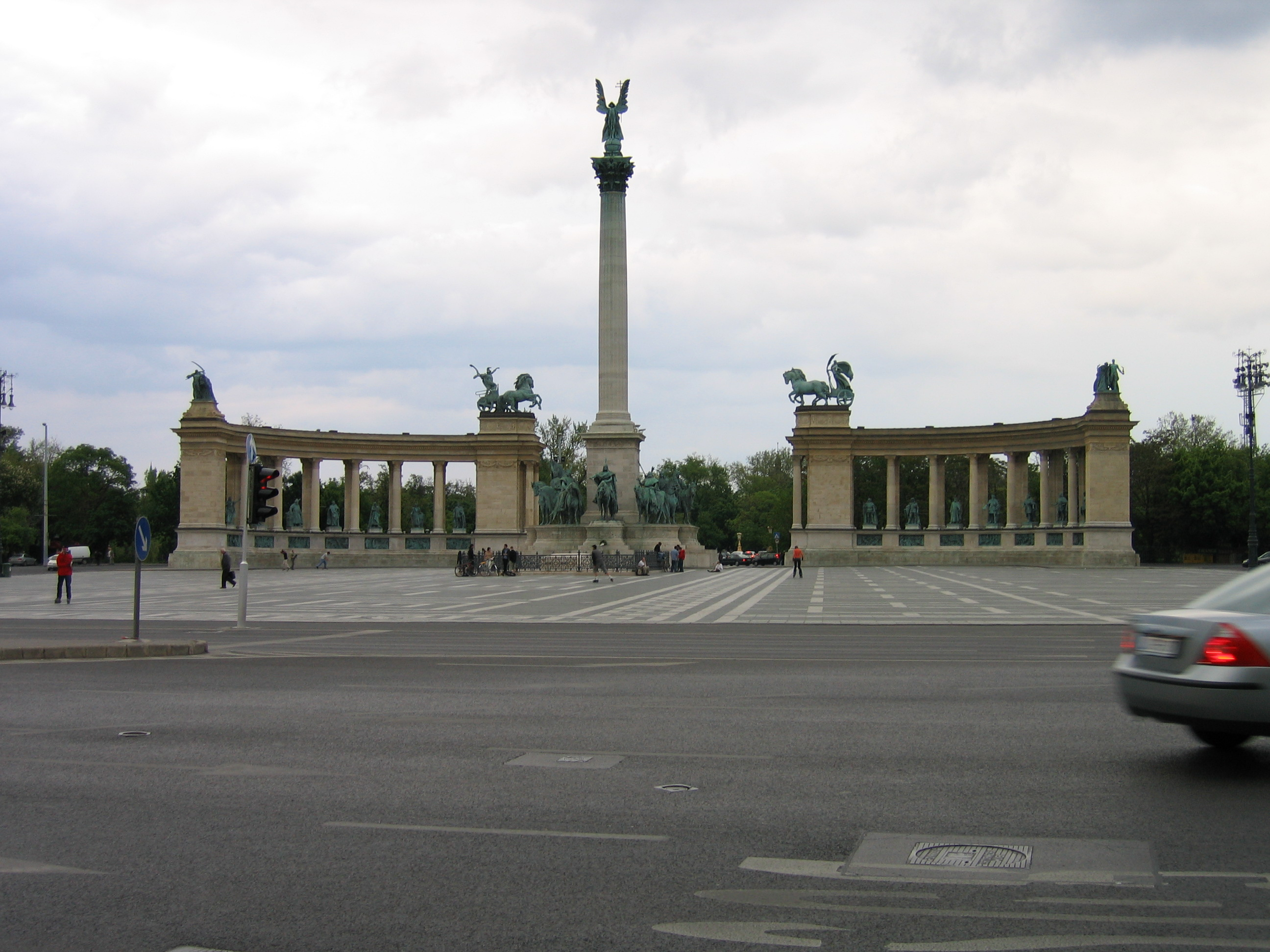 Heroes' Square (Hősök tere) Budapest, Hungary